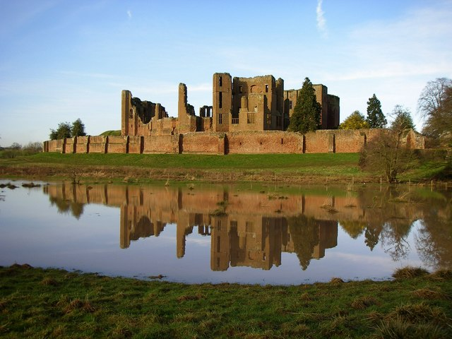 Kenilworth Castle mere flooded A watery mere surrounding the castle making it an island stronghold so it could withstand a siege in 1266 against Henry III's siege engines.